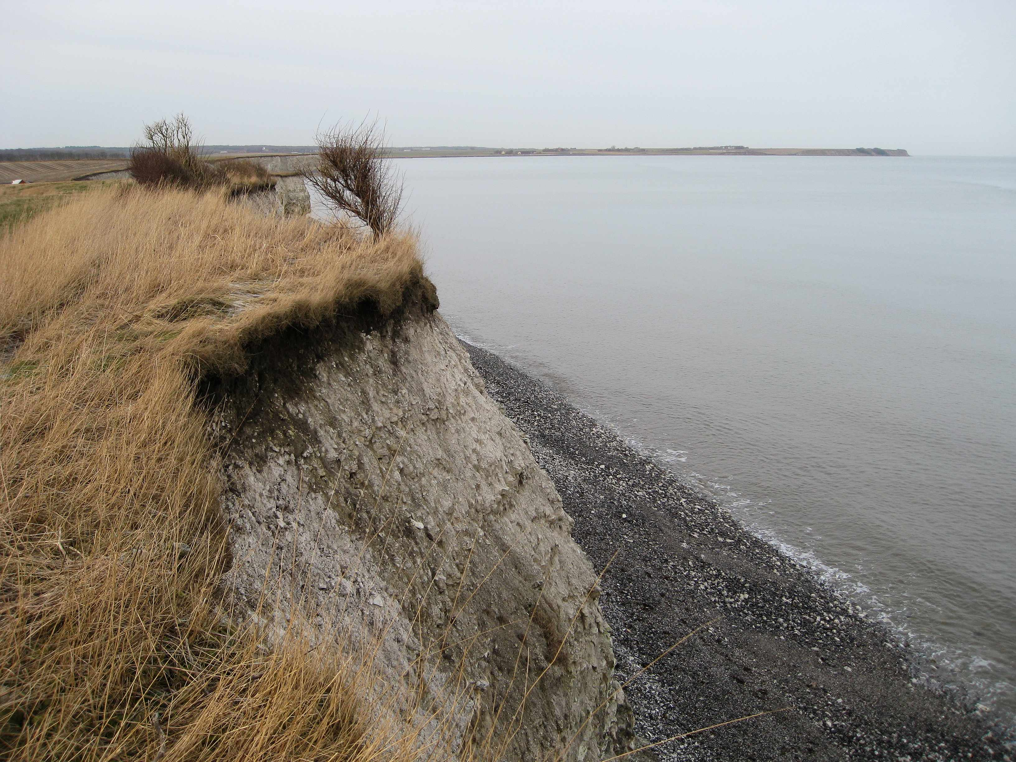 Sangstrup klint